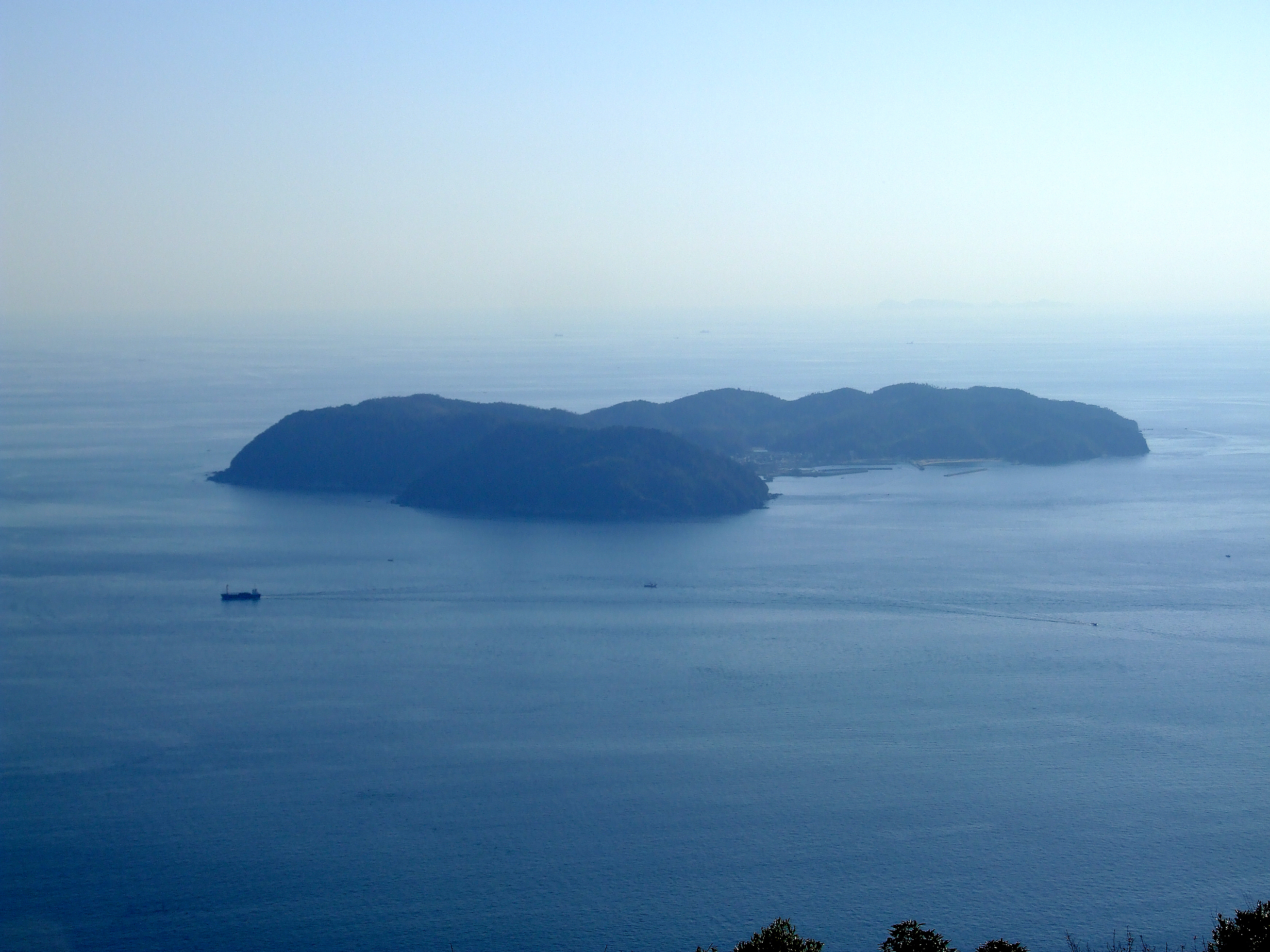 the view of Nushima(island) from Mt Yuzuruhasan in Awaji-shima(island). Hyogo pref., Japan.